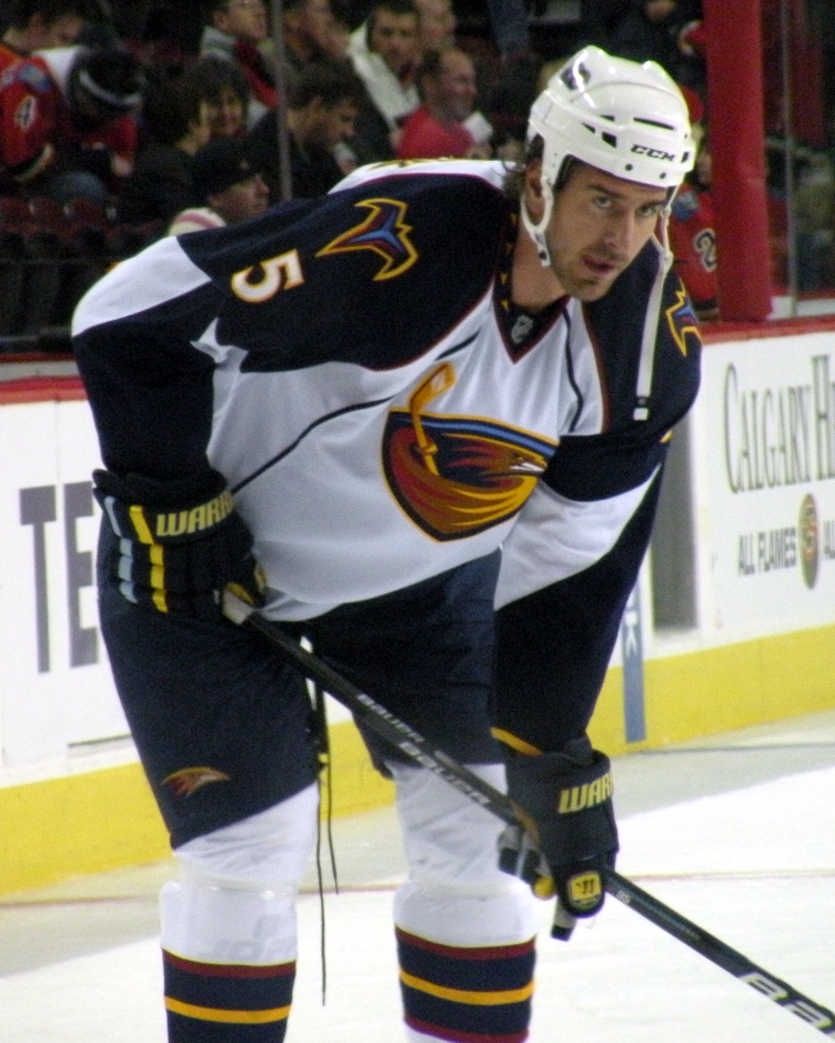 Atlanta Thrashers defenceman Boris Valabik prior to a National Hockey League game against the Calgary Flames, in Calgary